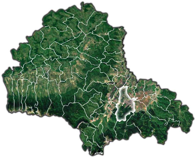 Romania Brasov Location map.